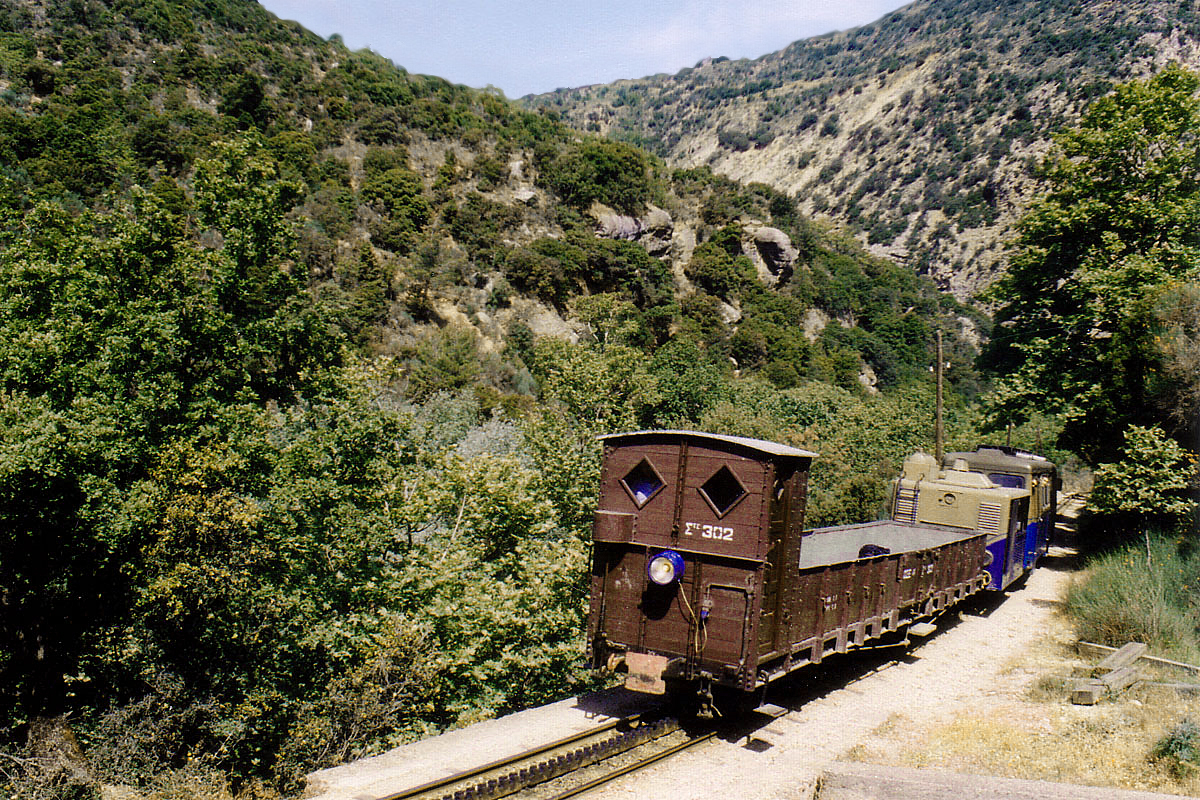 Gorge with mountain creek Vouraikos; 75cm rack train Diakoftó-Kalávryta, Peloponnese. Typical evergreen Maquis shrubland vegetation. Creek water allows deciduous trees.